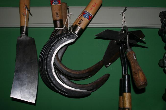 Sicle. New tools at the agricultural museum near Copenhagen. Frilandsmuseet on the 27.3.2005